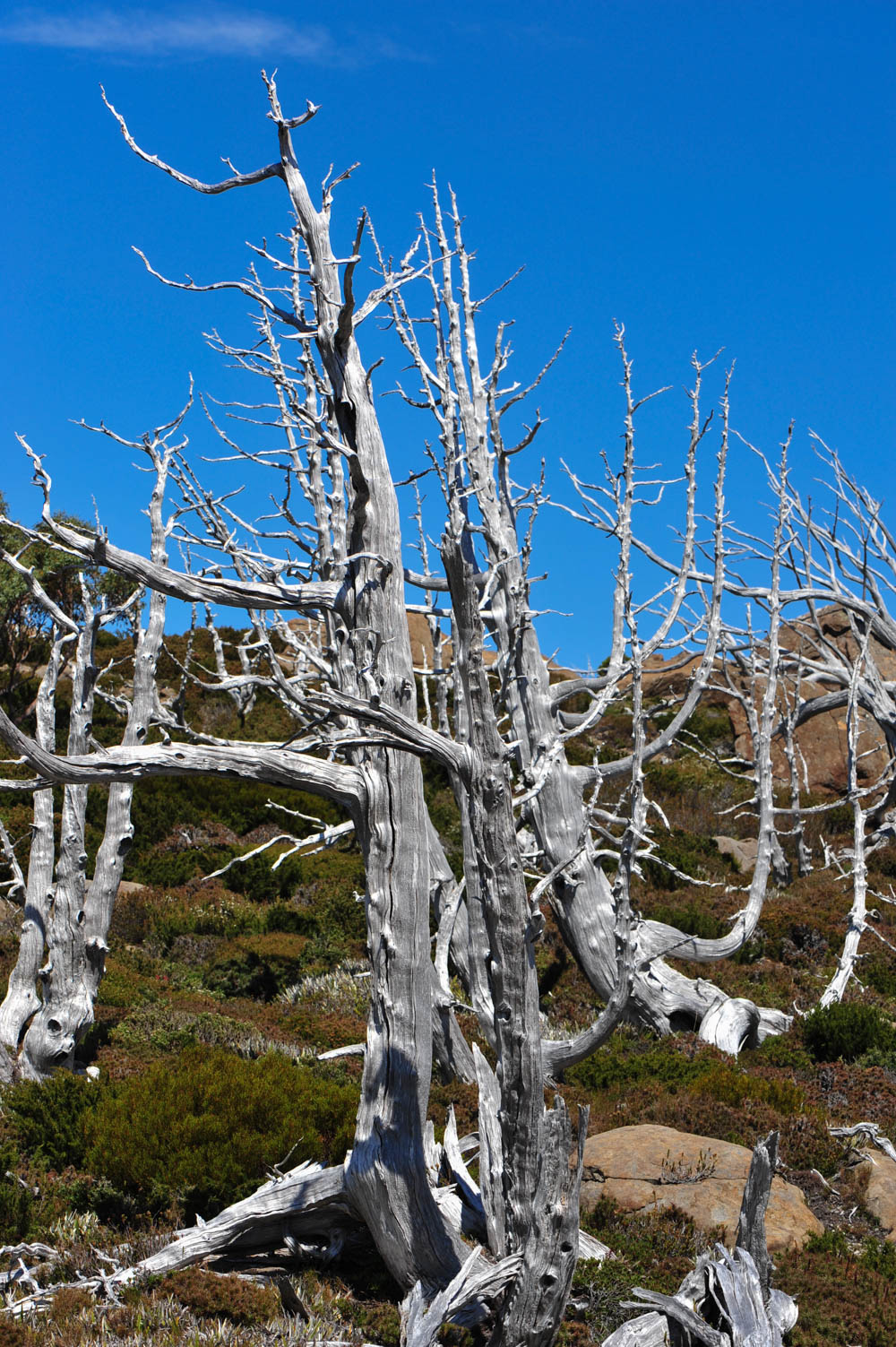 Snag of Athrotasix cupressoides 30-40 years after a bush fire